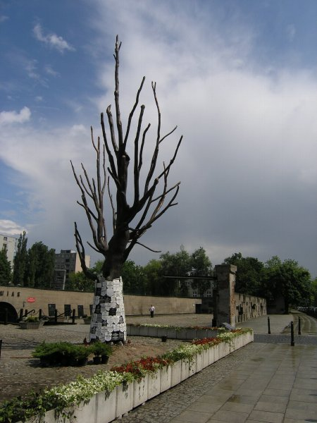 Tree Monument on the terrain of ex-prison Pawiak, and remaining part of prison gate. Warsaw.